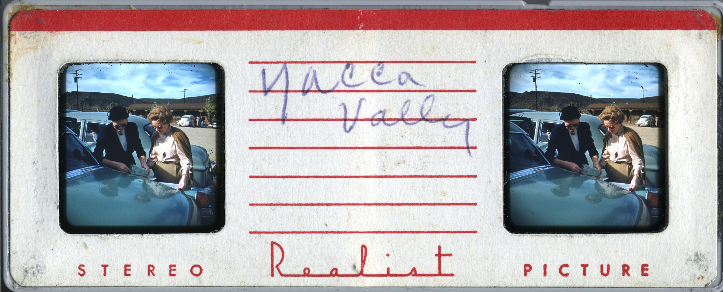 Back side of Realist permamount, this is the side that the label was put on.